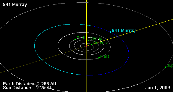 941 Murray orbit, and his position on 01 Jan 2009 (NASA Orbit Viewer applet)